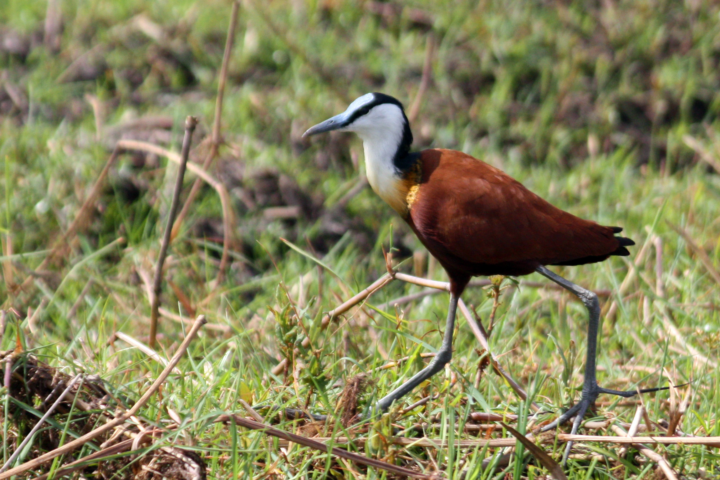 African jacana (Actophilornis africanus) in the Okavango Delta, Botswana